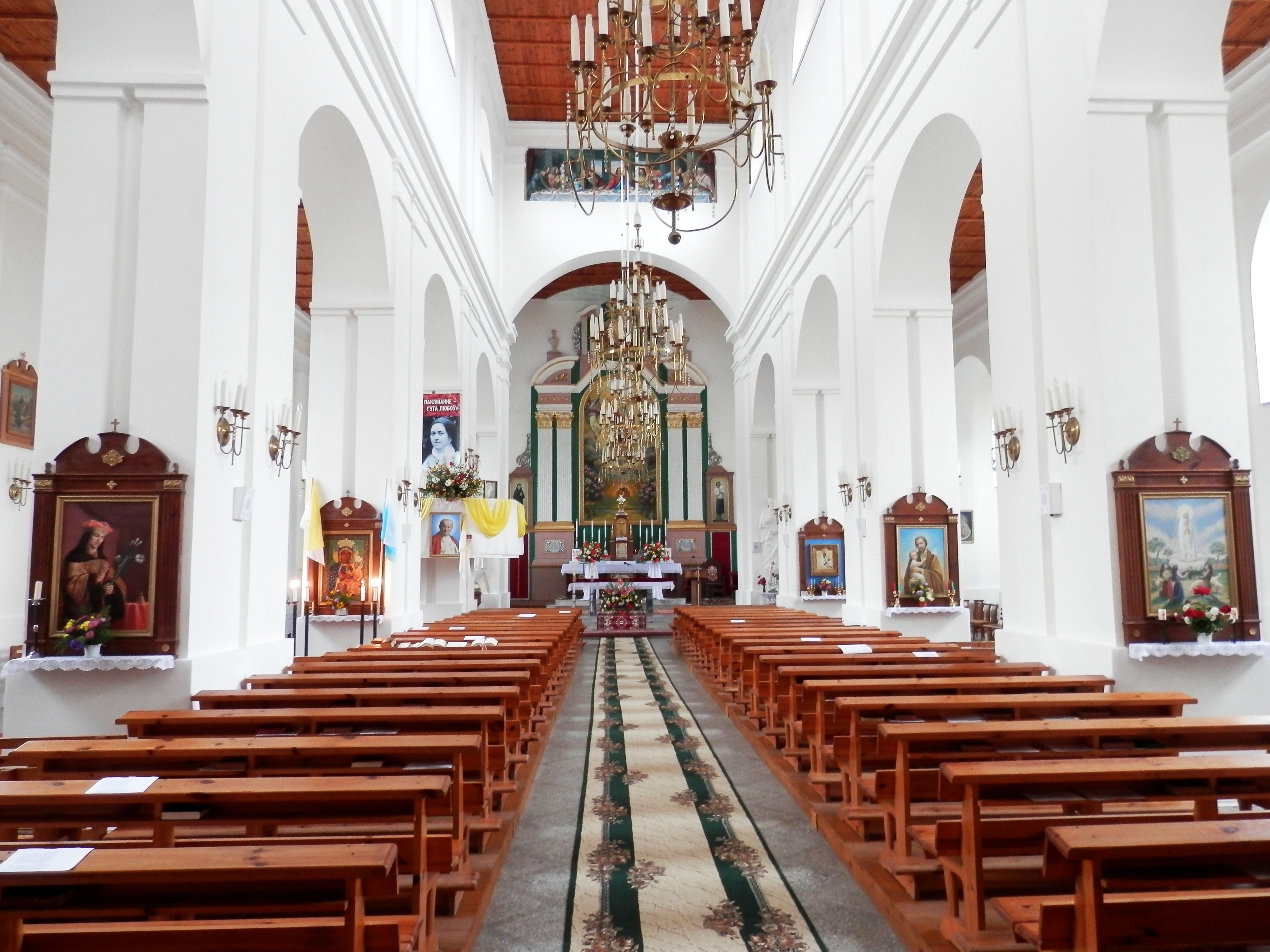 Church of Assumption of the Holy Virgin Mary. Naliboki, Belarus